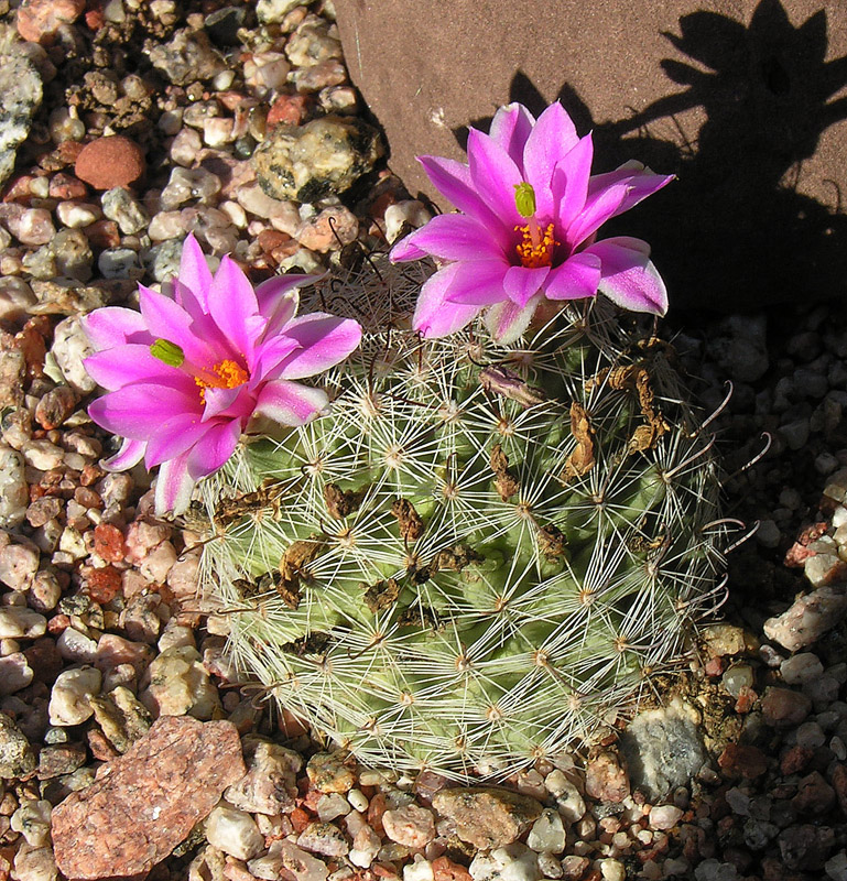 Native to northern Mexico. Jardin Botanico Chirau Mita, Chilecito, Argentina.